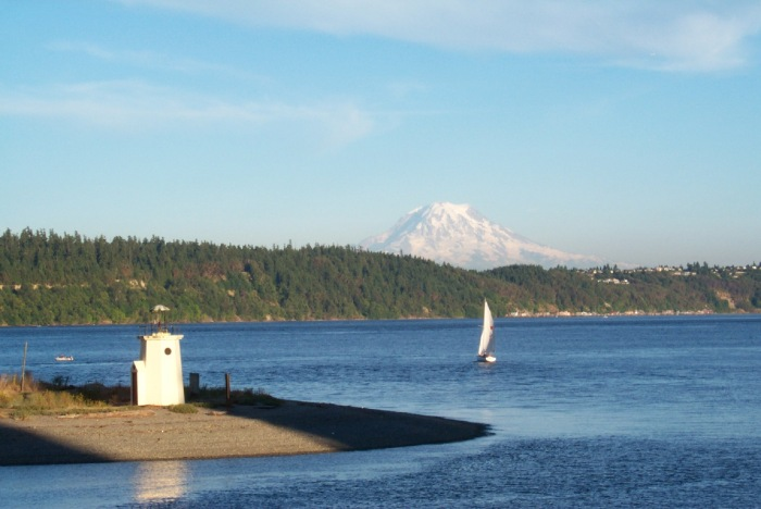 A view of Mount Rainier from Gig Harbor - looking east.